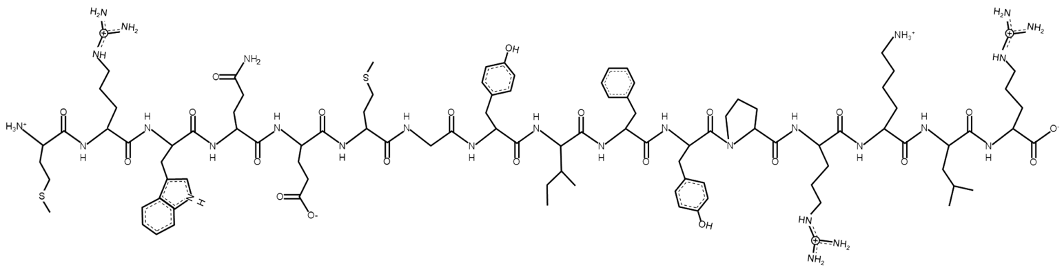 MOTS-c amino acid structure